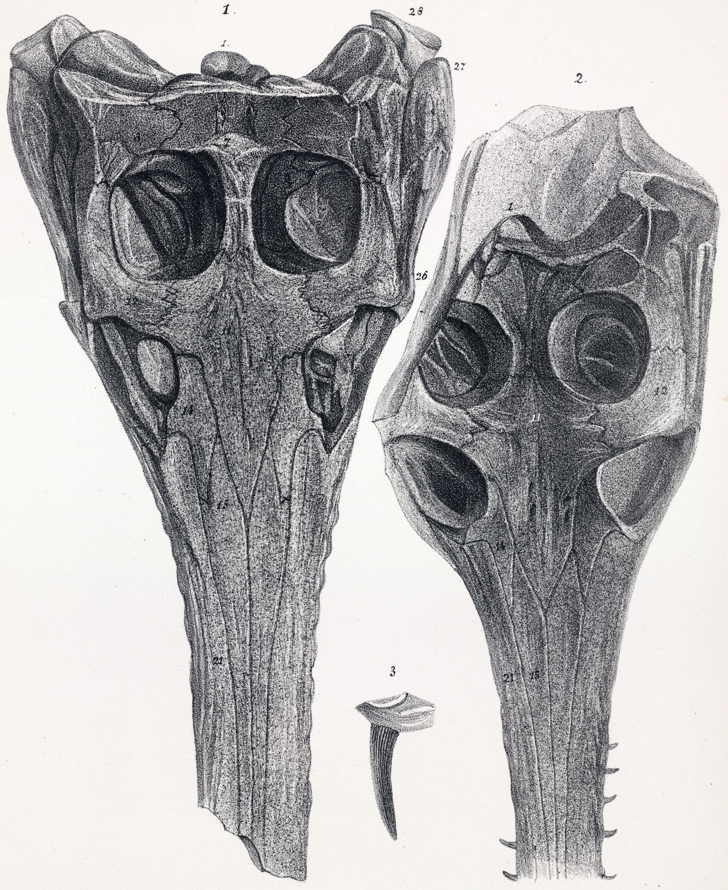 Fig. 1. Part of skull of Steneosaurus Geoffroyi. Fig. 2. Skull of Steneosaurus laticeps. (Both figures are reduced views.) From the Great Oolite, Oxfordshire.